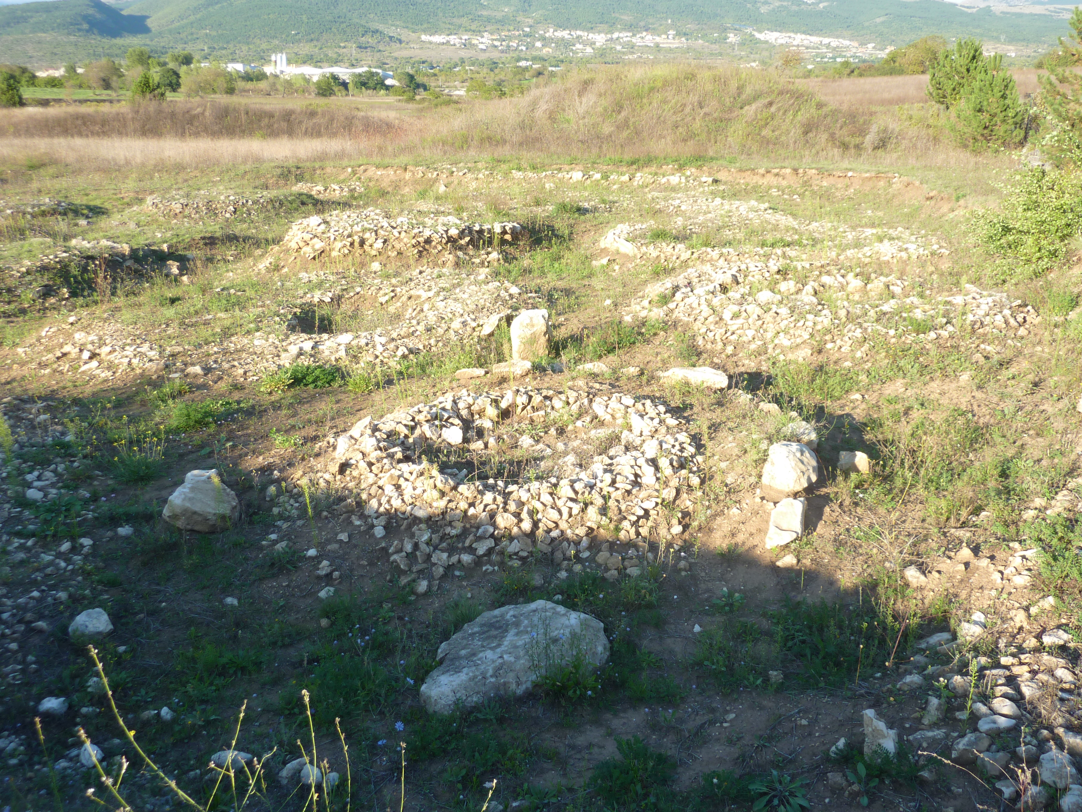 Fossa (AQ): Necropoli